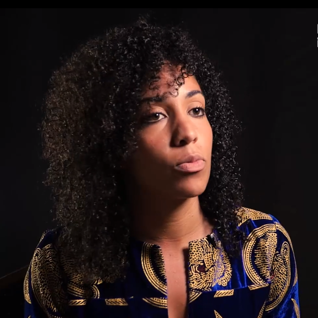 Maya Horgan Famodu on VC4A